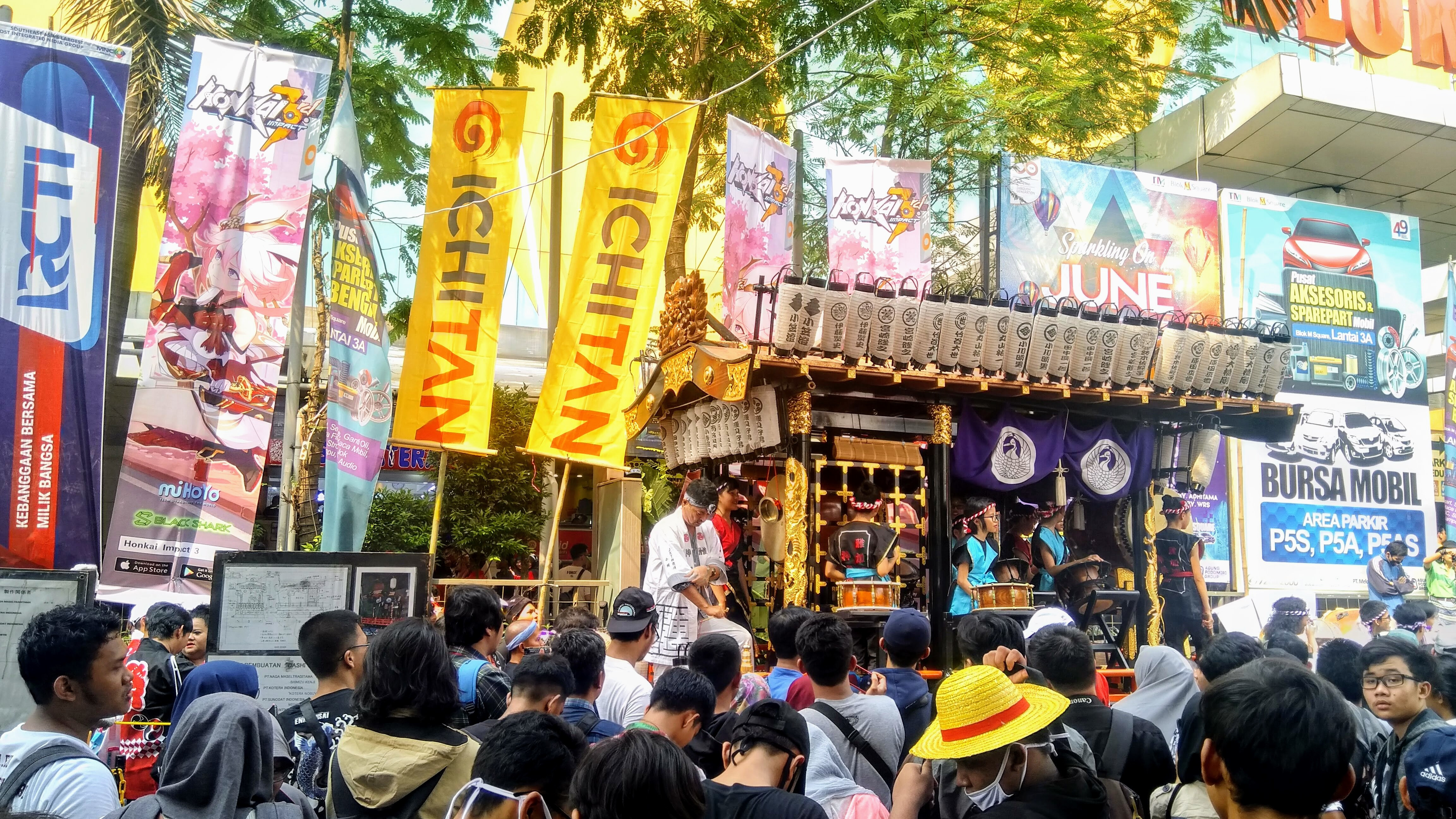 Dashi (山車) in Ennichisai 2019